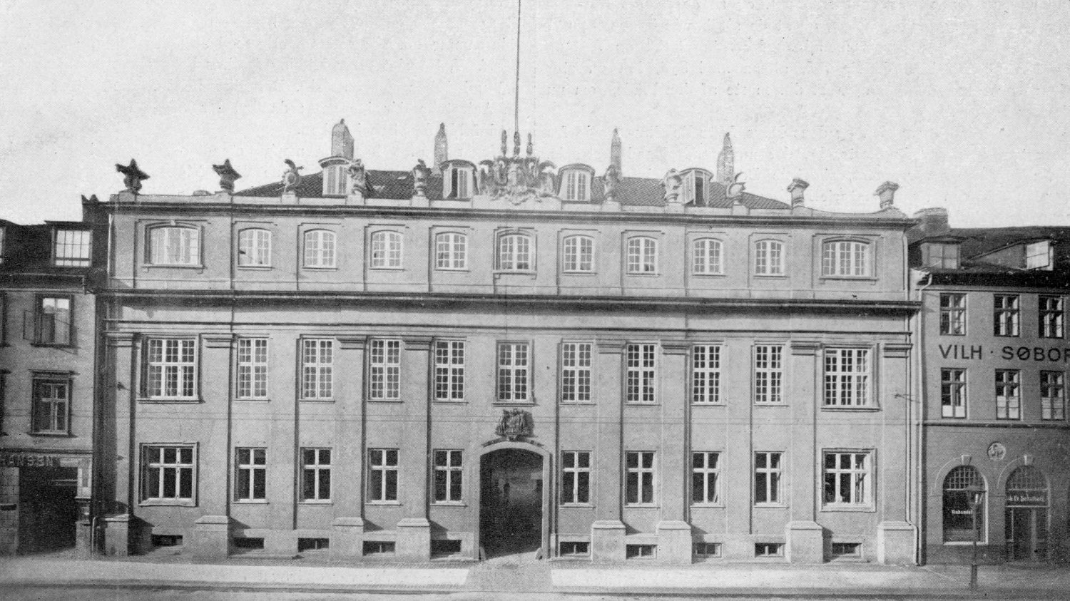 Holsteins Palæ in Sotmgade inCopenhagen, Denmark